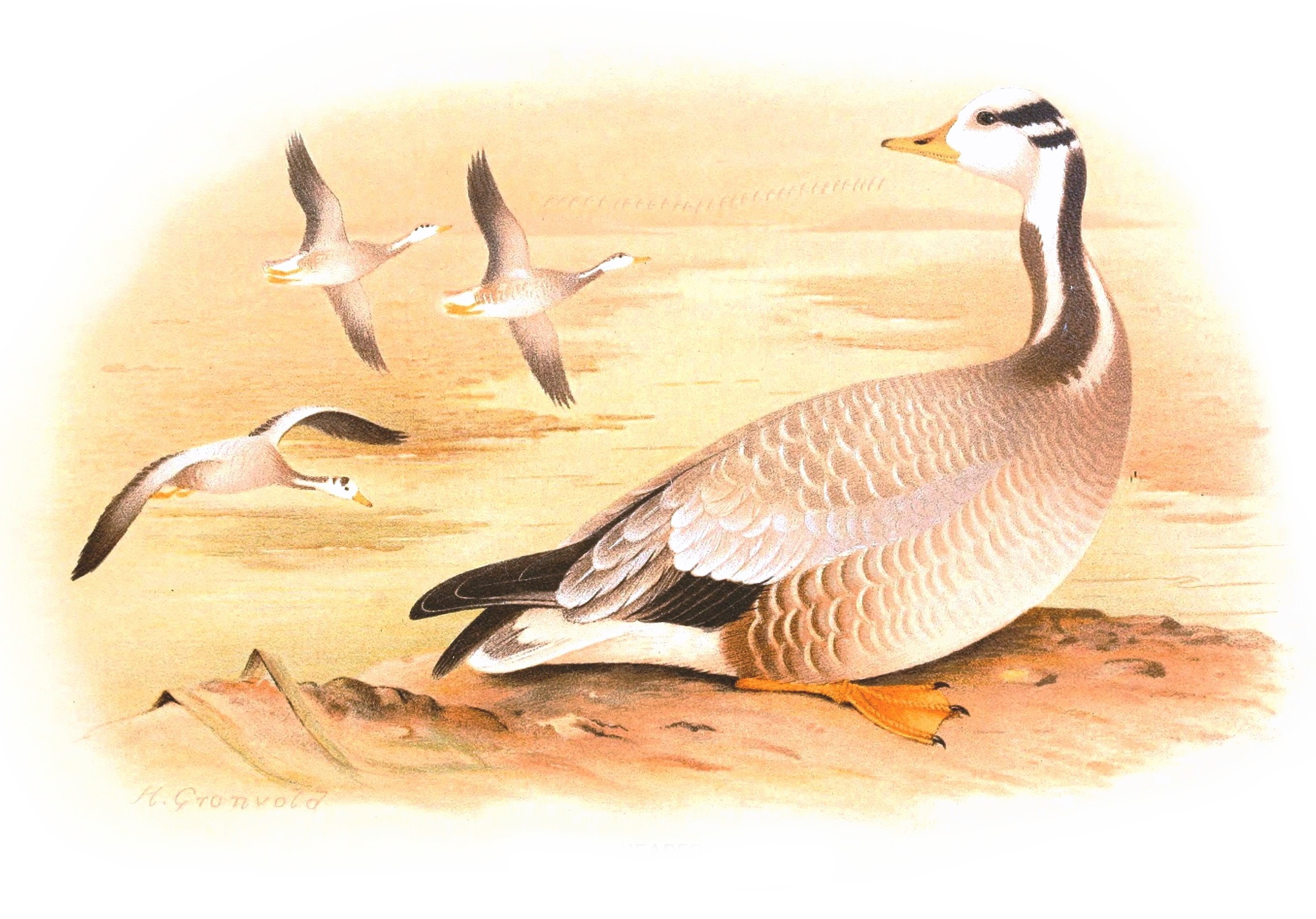 The Bar-headed Goose Anser indicus = Anser indicus (Bar-headed Goose)